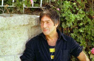 Photograph